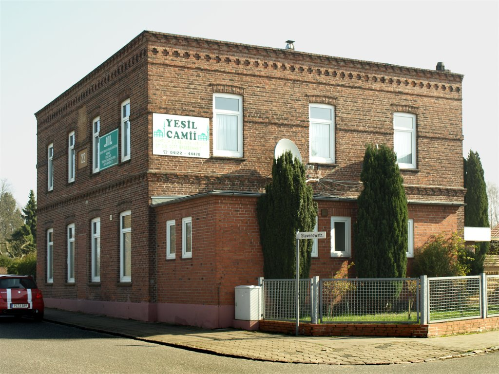 Uetersen (Germany), mosque , photo 2008